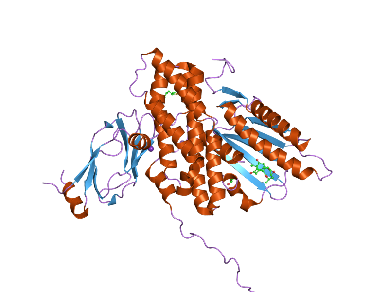 Cartoon representation of the molecular structure of protein registered with 2q8i code.